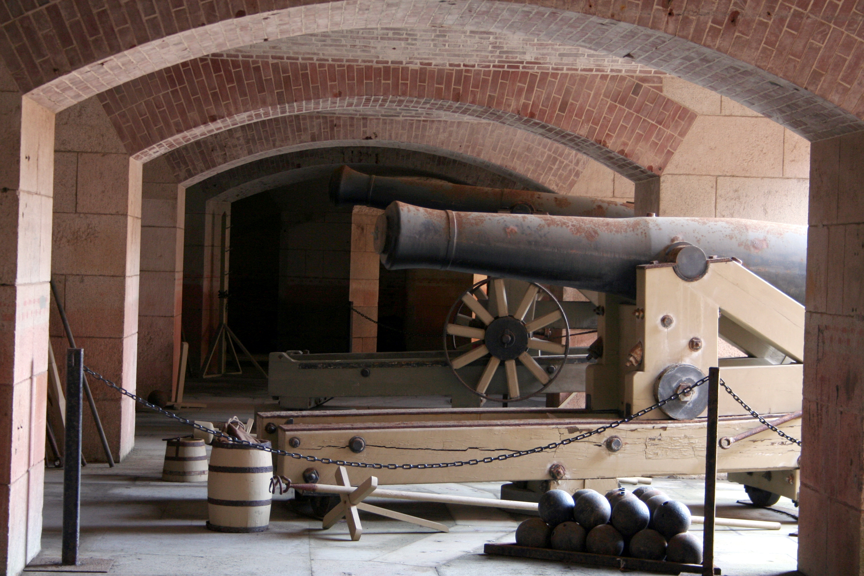 Photographed by and copyright of (c) David Corby (User:Miskatonic, uploader) 2006 Fort Point sits under the Golden Gate Bridge San Francisco California taken Febuary 04 2006